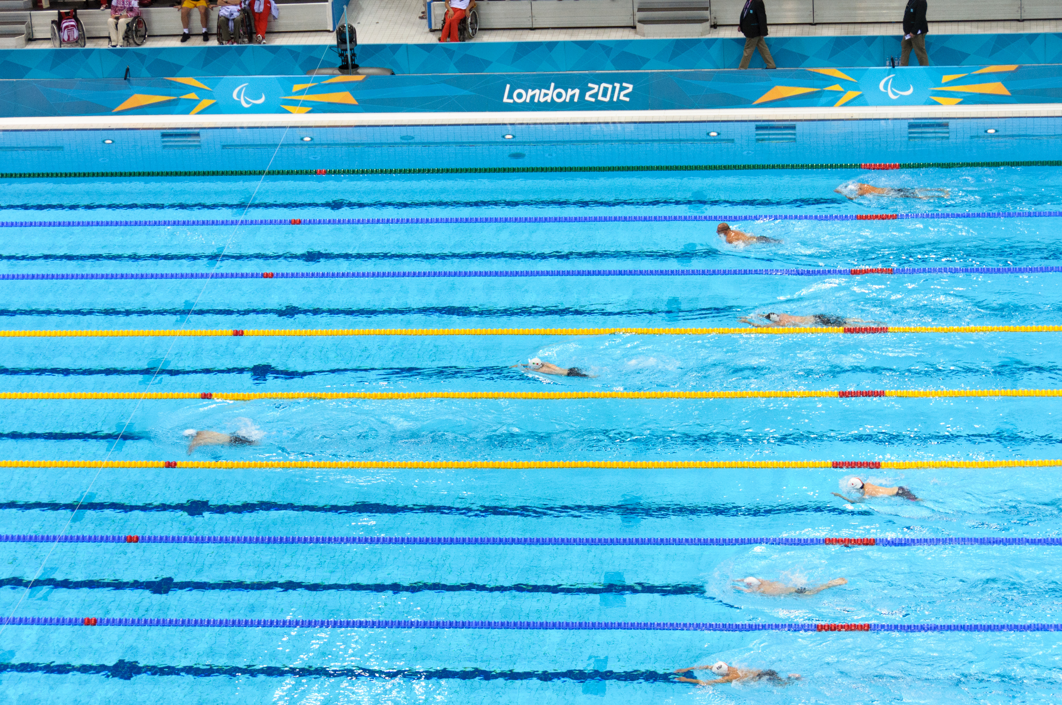 Cameron Leslie in front at Men's 150m Individual Medley - SM4 swimming final. Paralympic Swimming - Evening (Finals) session, 2 September 2012